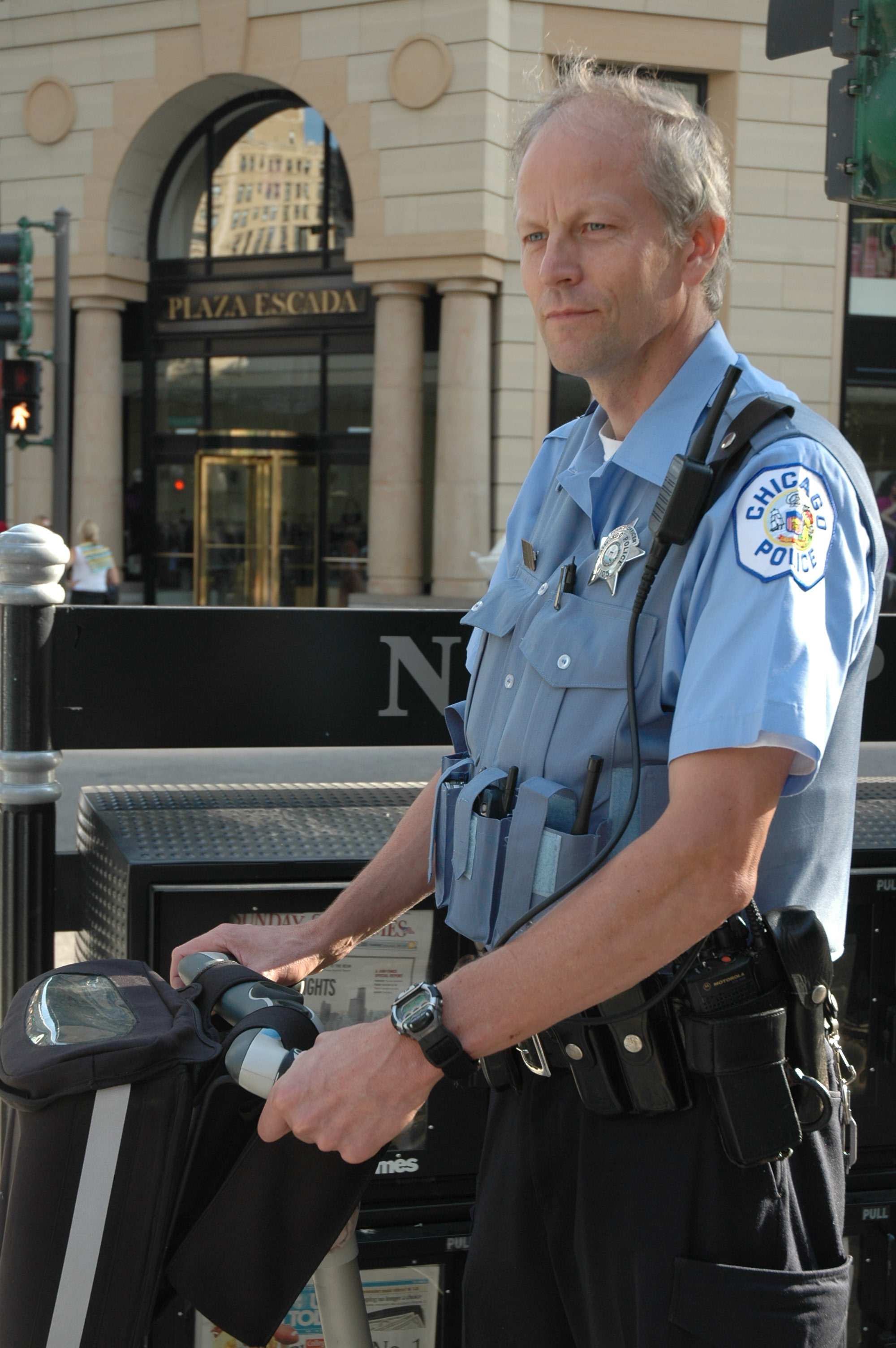 A Chicago police officer on a segway.